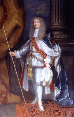 James Butler, 1st Duke of Ormonde (1610-1688)